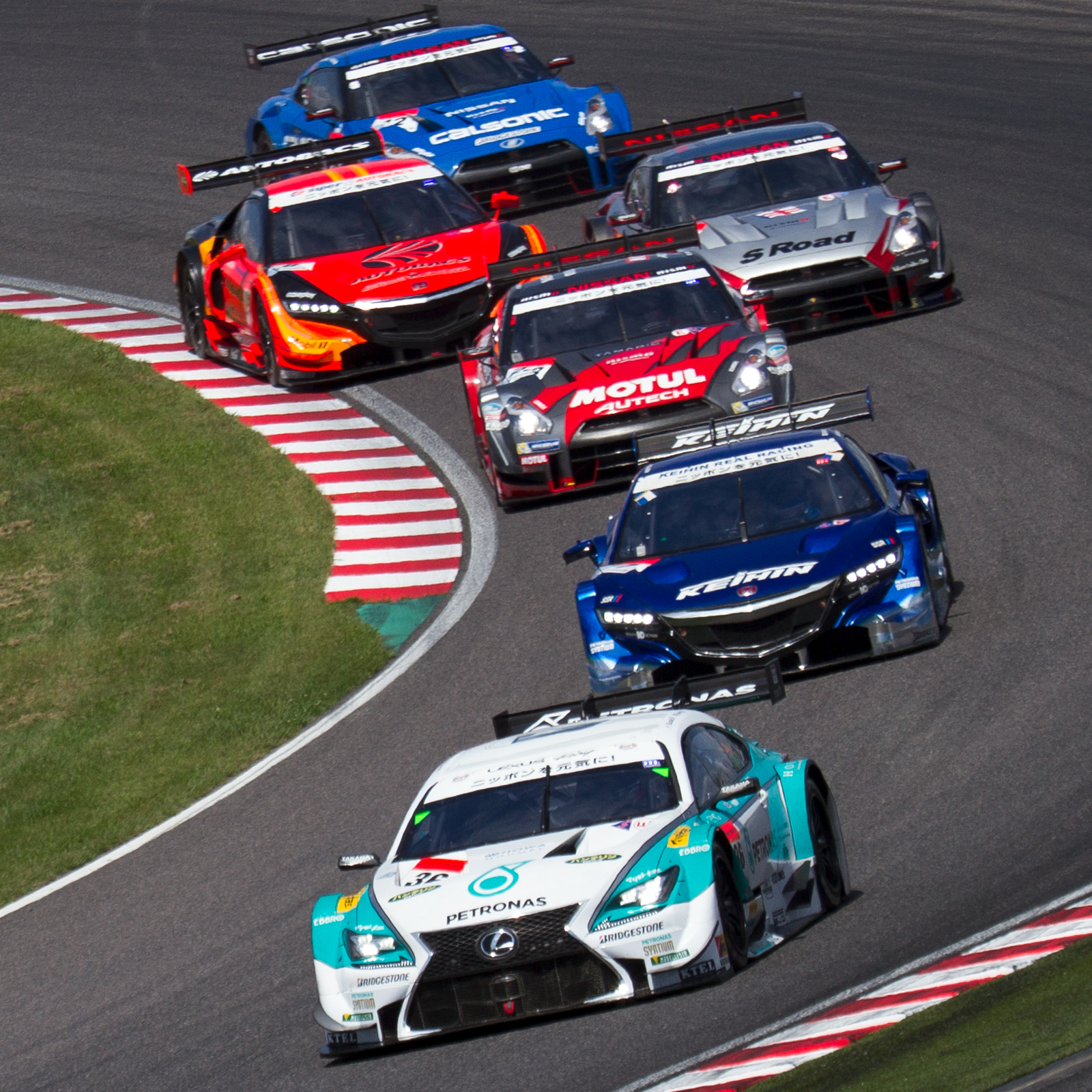 Super GT 2014 Rd.6 Suzuka 1000km: opening lap (GT500)